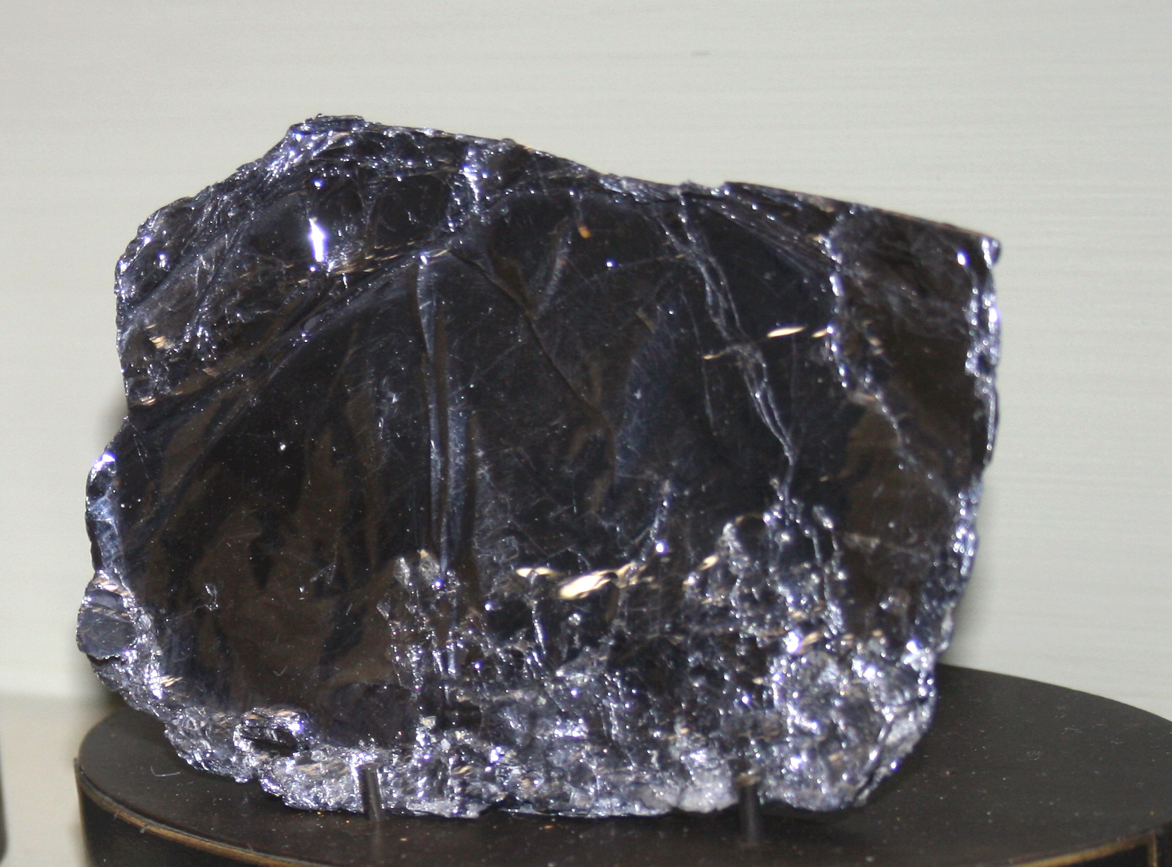 Mineral molybdenite, chemical composition: MoS2, from collection of National Museum, Prague, Czech Republic, originally from New South Wales